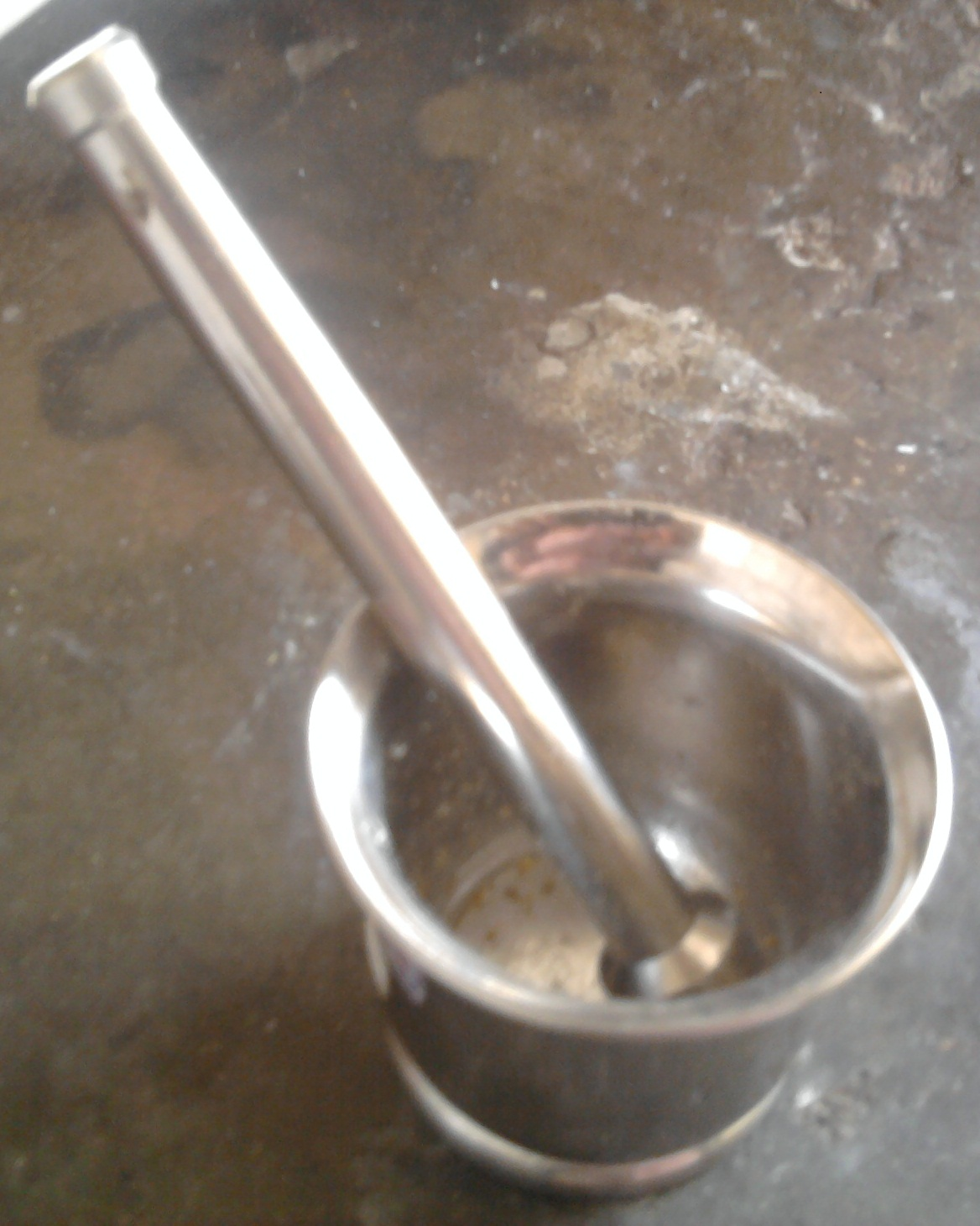 Mortar and pestle Made with Metal of Steel